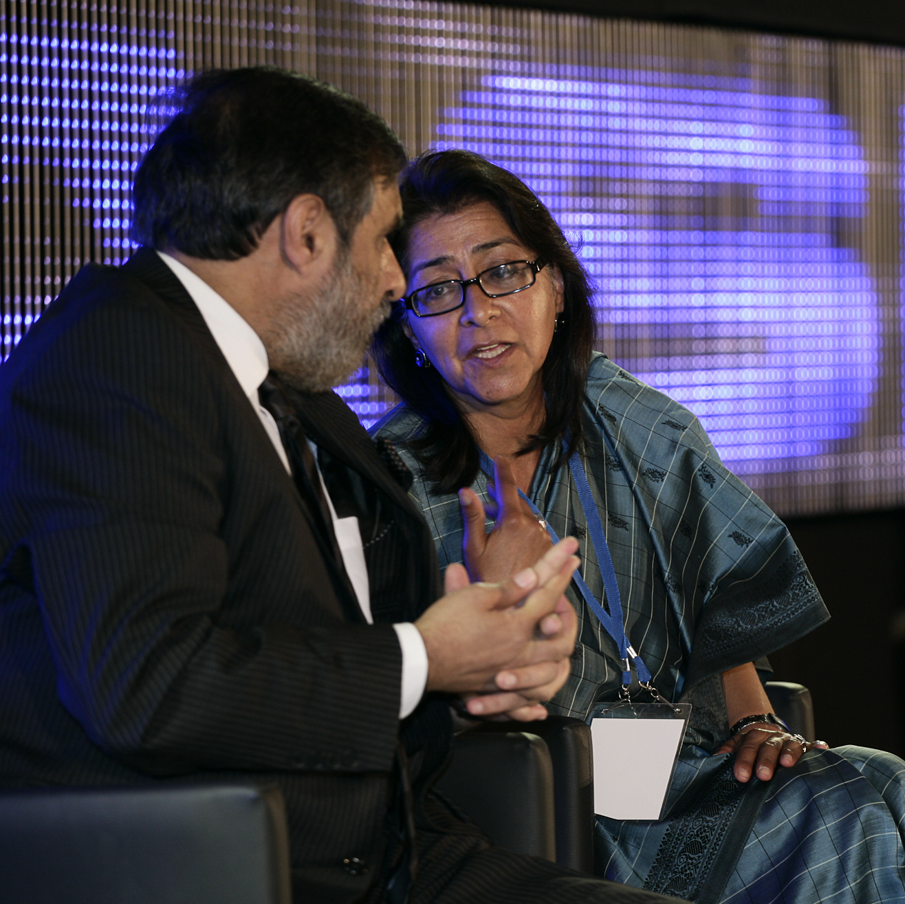 Naina Kidwai, Senior Vice President, FICCI, with Anand Sharma at the Horasis Global India Business Meeting, Antwerp, 24-25 June